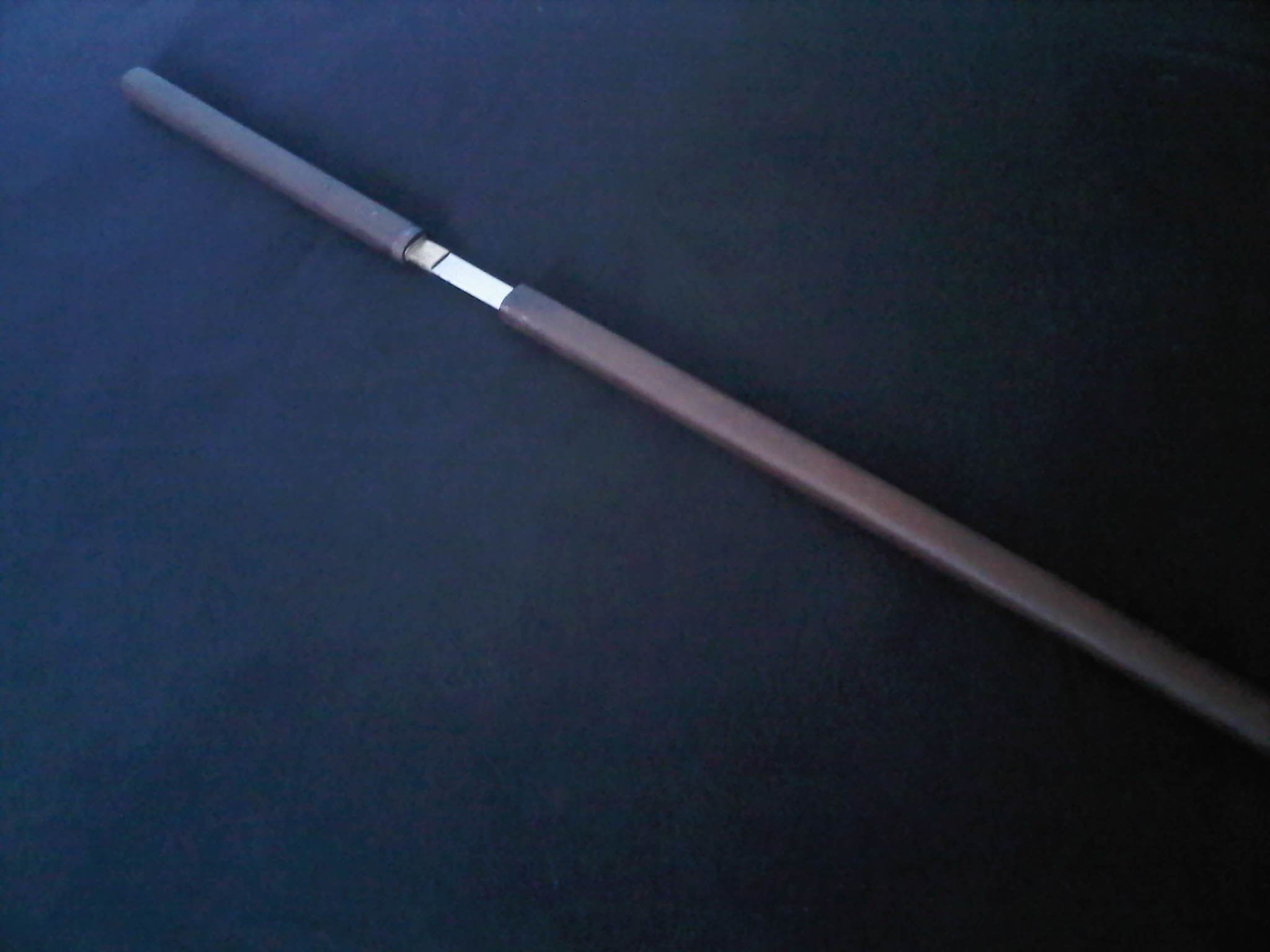 Shikomizue sword.